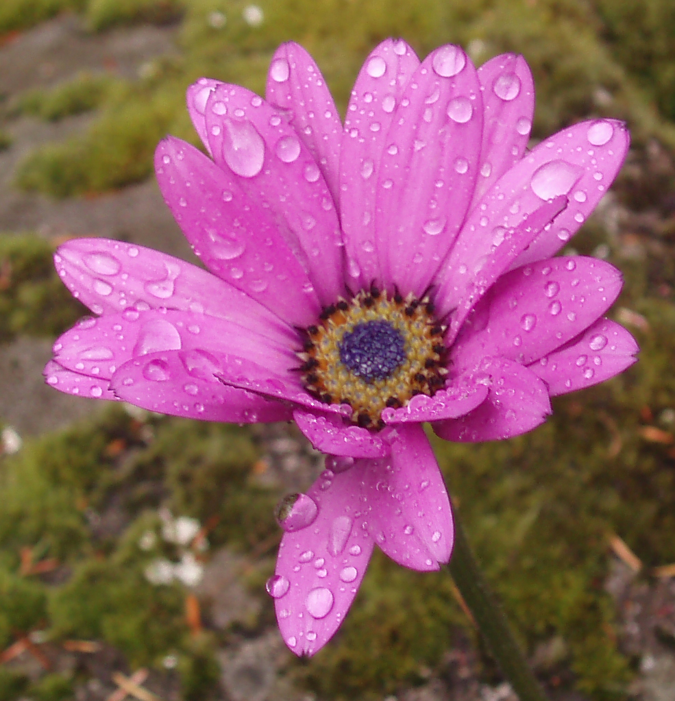 African Daisy (Osteospermum Jucundum) in the gardens of Drumlanrig Castle